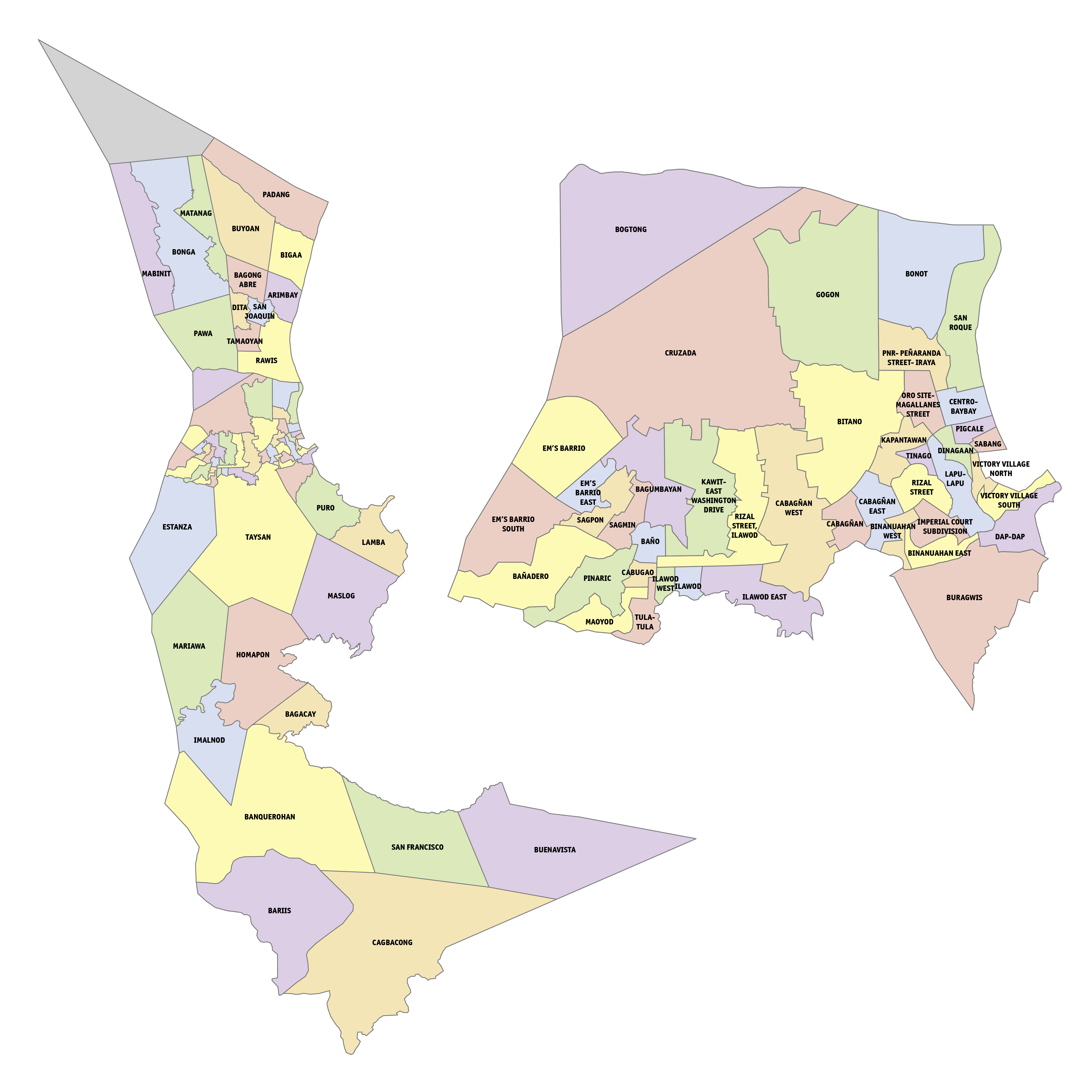 Map showing the barangays of Legazpi City, Albay